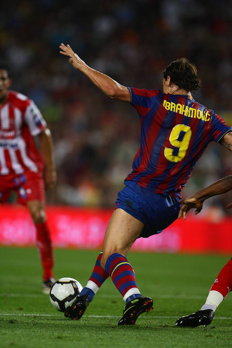 Football : Zlatan Ibrahimovic of FC Barcelona in action during the La Liga match between FC Barcelona and Sporting Gijon at Camp Nou stadium on August 31 in Barcelona, Spain. (Photo by Tsutomu Takasu)